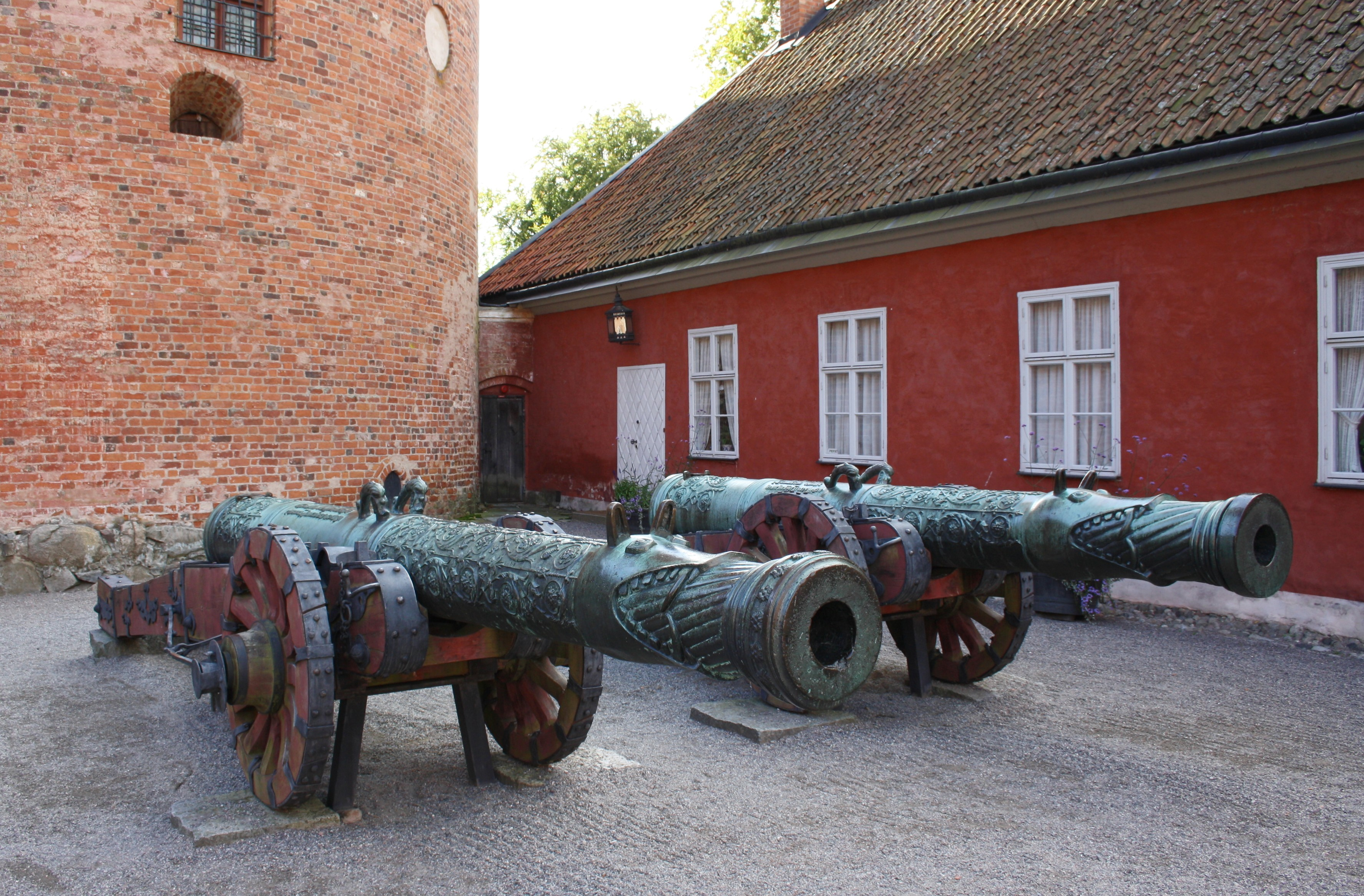 Gaten och Suggan, The Boar and the Sow, two russian canons (war-throphies) from the end of the 16:th century, at the Gripsholm castle in Mariefred, Sweden